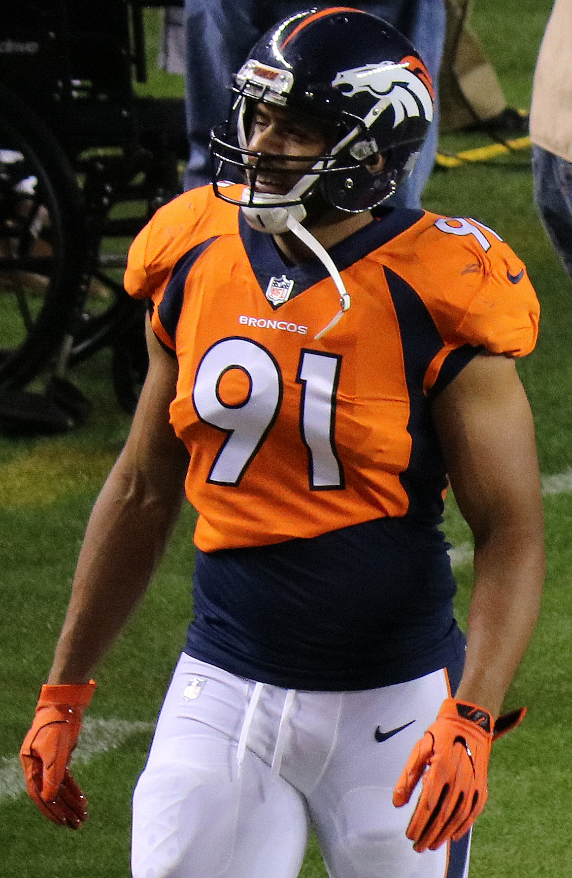 Kasim Edebali, a player on the National Football League.